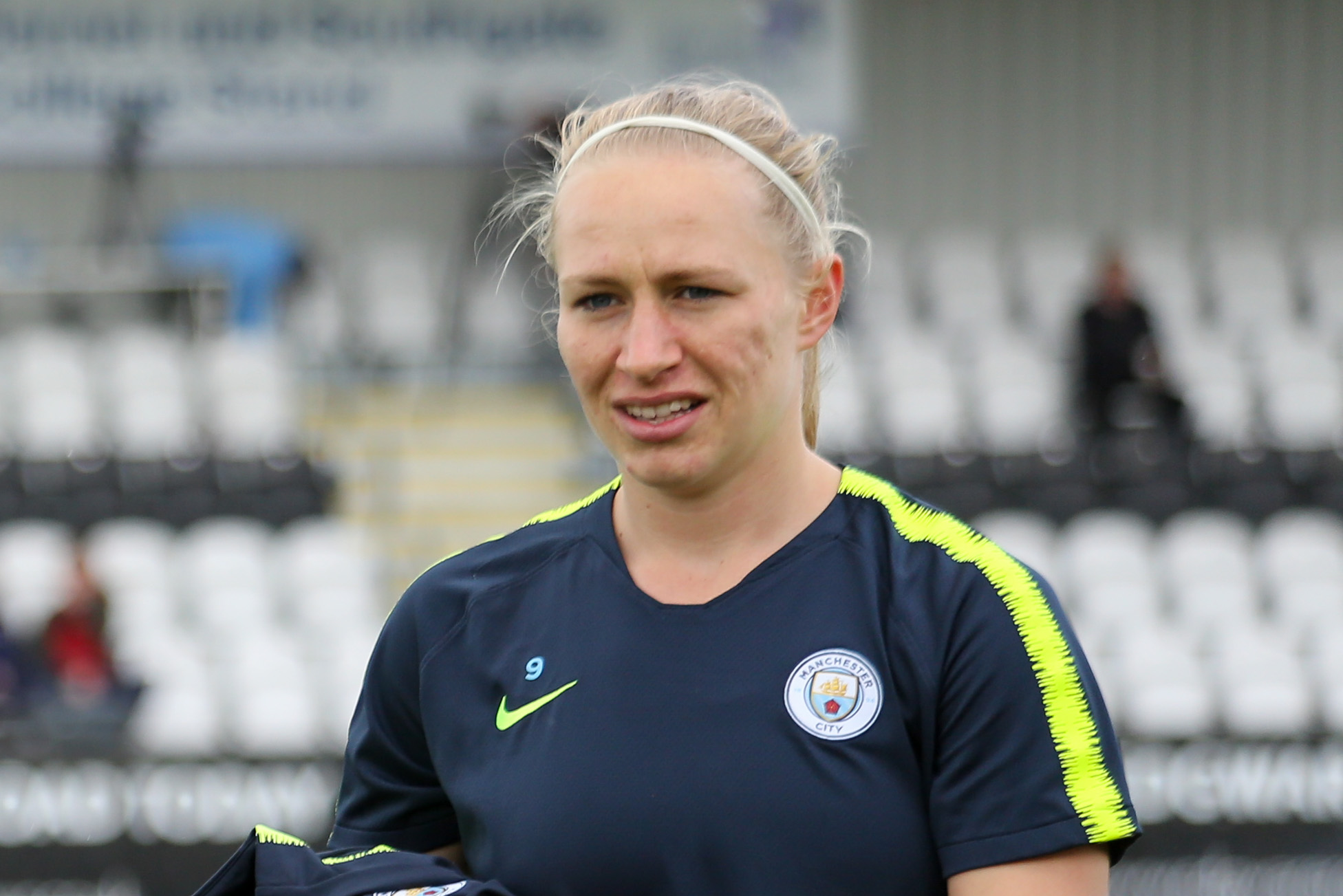 2018–19 FA WSL: Arsenal WFC v Manchester City WFC, 11 May 2019 – Pauline Bremer of Manchester City before the start of the match